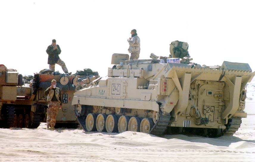 FV513 Mechanised Recovery Vehicle (Repair), Company C, 1st Battalion, The Staffordshire Regiment (1st [UK] Armoured Division) live fire training exercise, 6 January 1991. XVIII Airborne Corps History Office photograph by SPC Randall R. Anderson, DS-F-106-12.